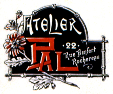 Atelier PAL logo, detail from a poster for the premiere of Massenet's opéra-comique Sapho